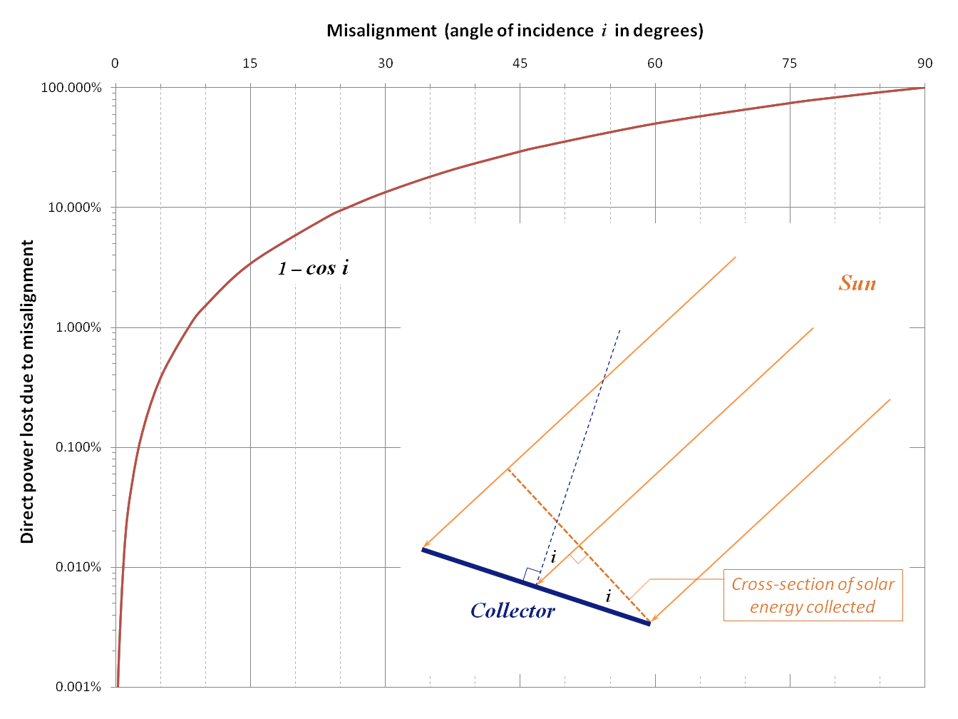 The effective collection area of a flat-panel solar collector varies with the cosine of the angle of misalignment (i.e. angle of incidence) of the panel with the Sun. Quite high levels of misalignment can be tolerated without significant power loss: less than 1% at 8° and less than 10% at 25°. Power collected drops off rapidly beyond misalignment angles of around 30°, with 30% power loss at 45°, 50% loss at 60° and 75% direct power loss at 75°.